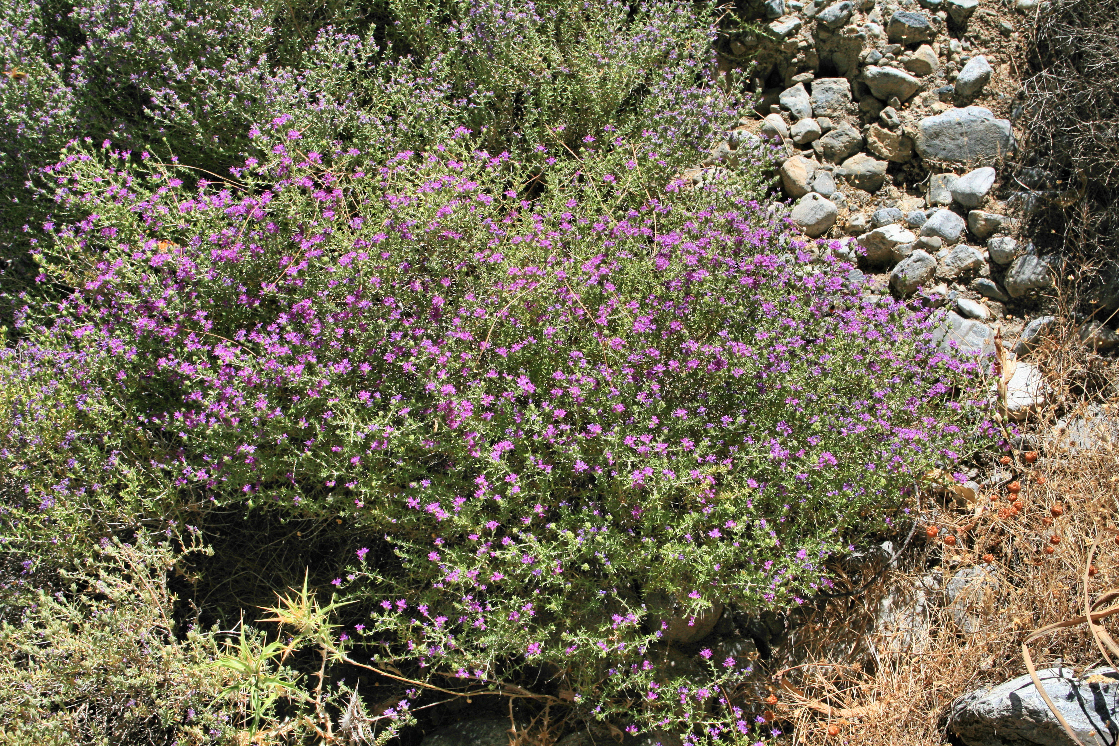 Thymus capitatus in the Samaria Gorge on the Greek Mediterranean island of Crete